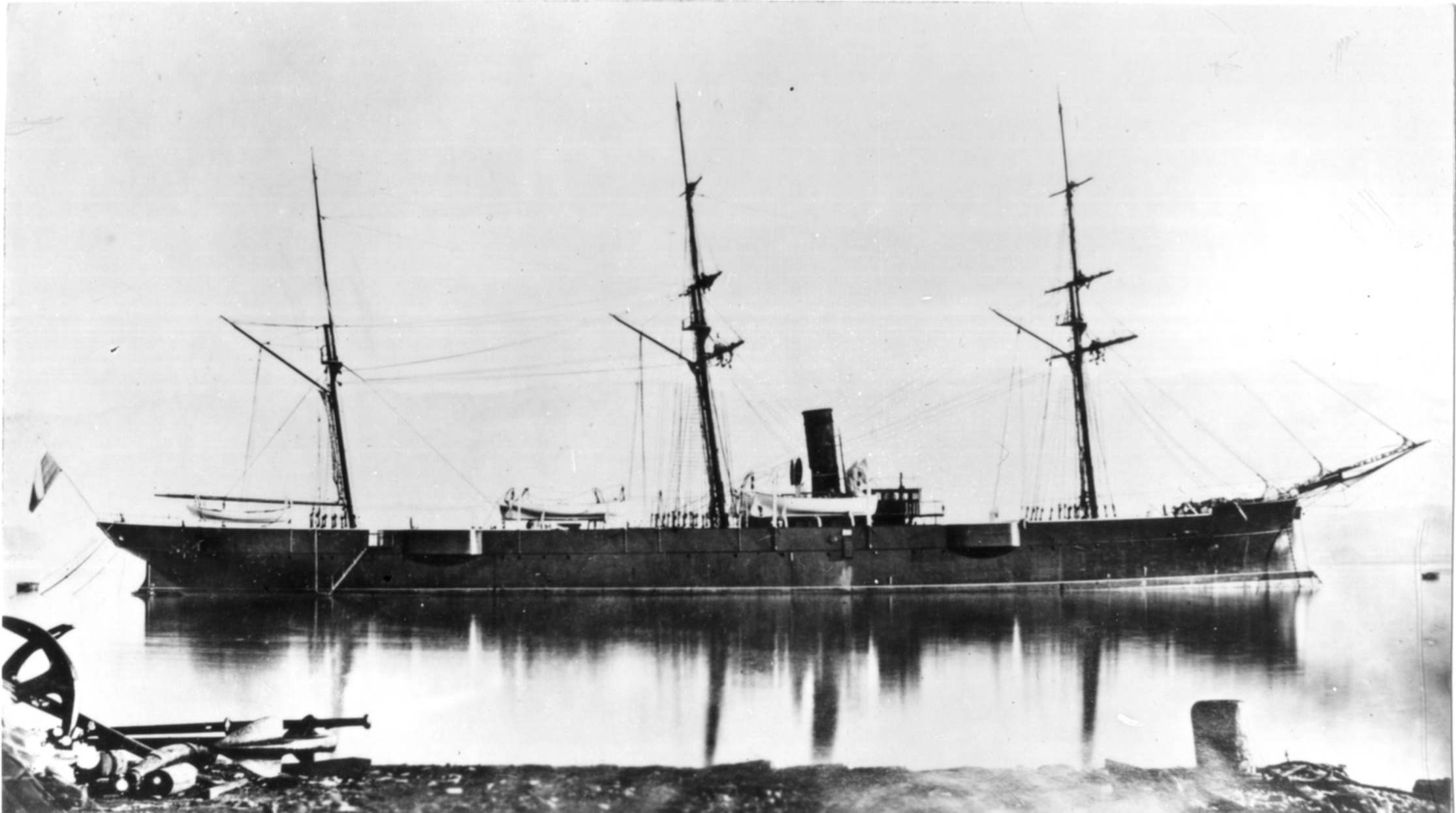 Imperial Russian cruiser Pamiat' Merkuriia.